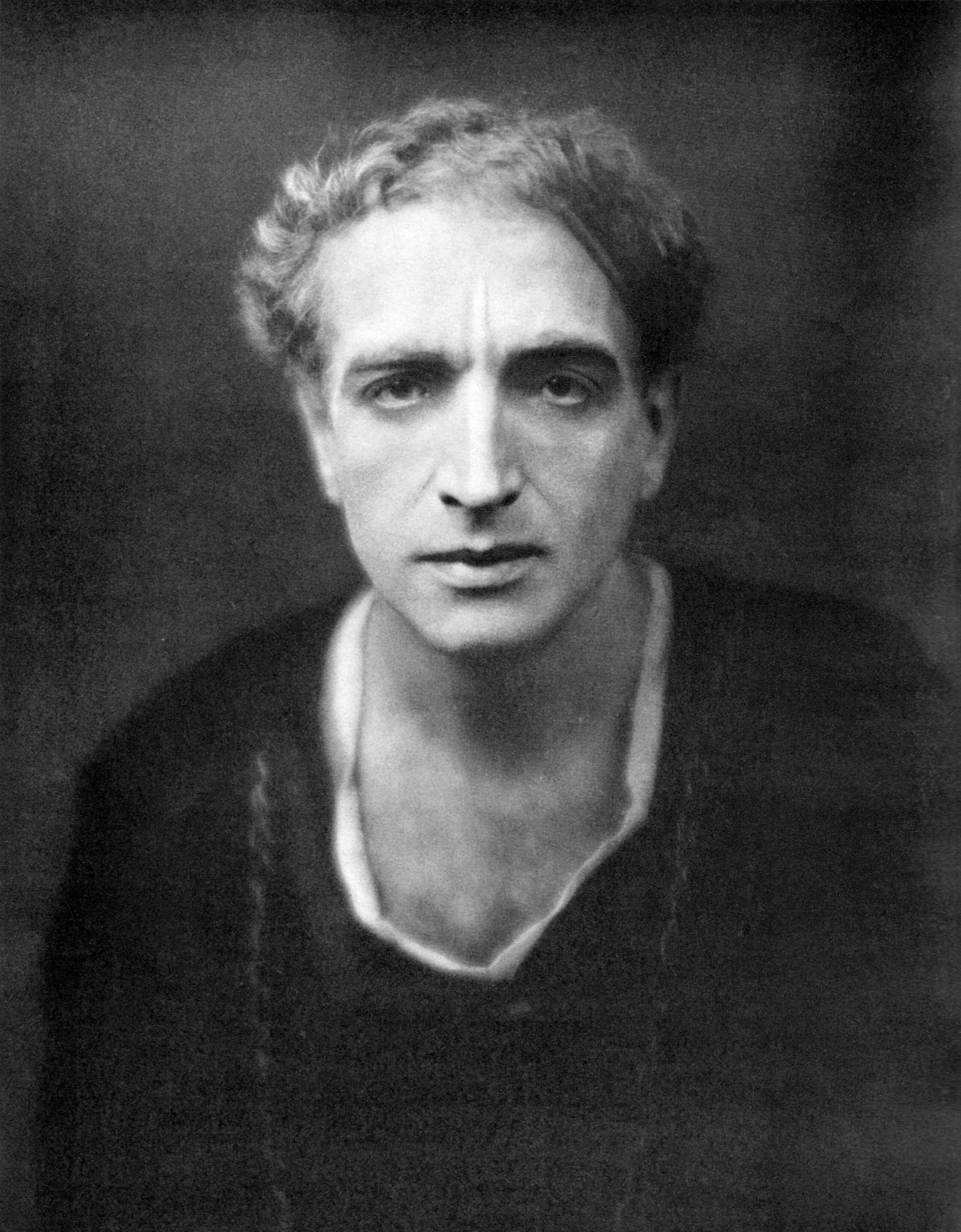 Portrait photograph of actor Fritz Leiber